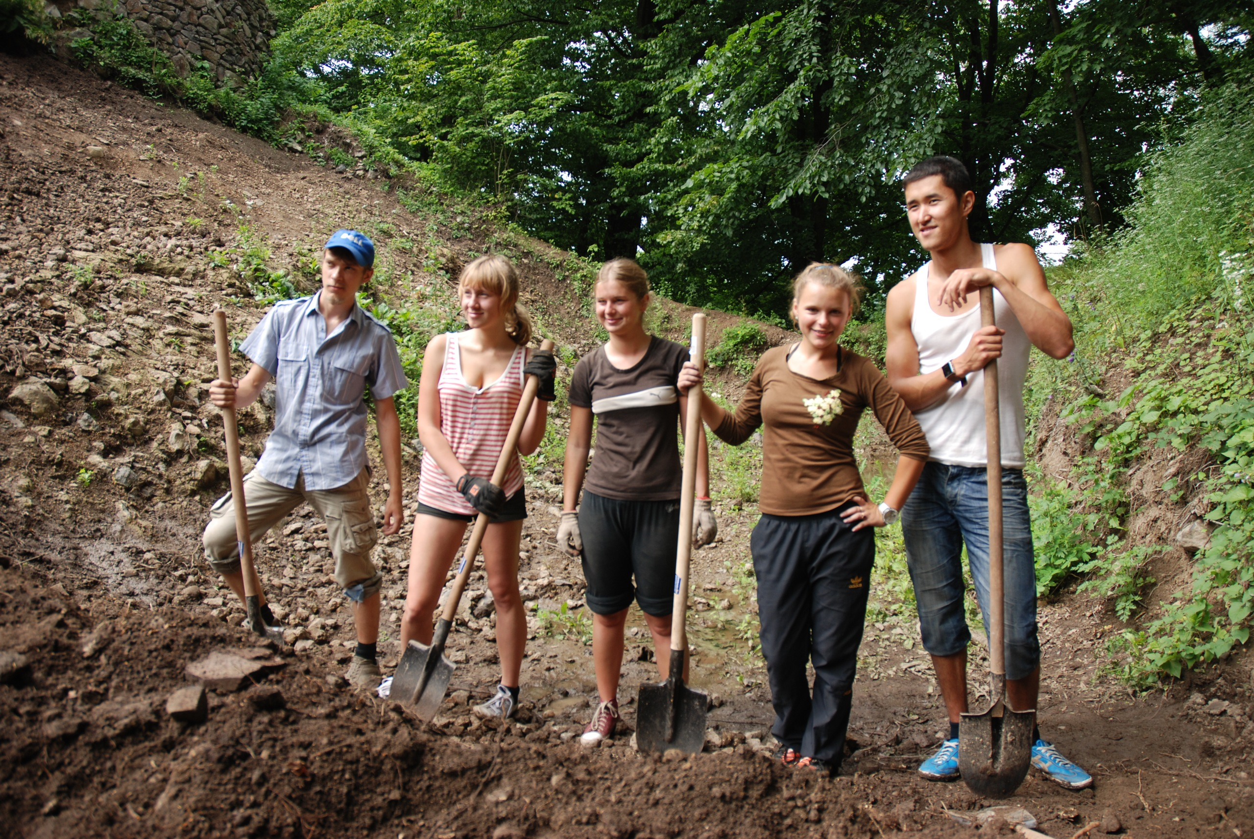 Volunteers doing reconstruction works on Nevitsky Castle, western Ukraine.